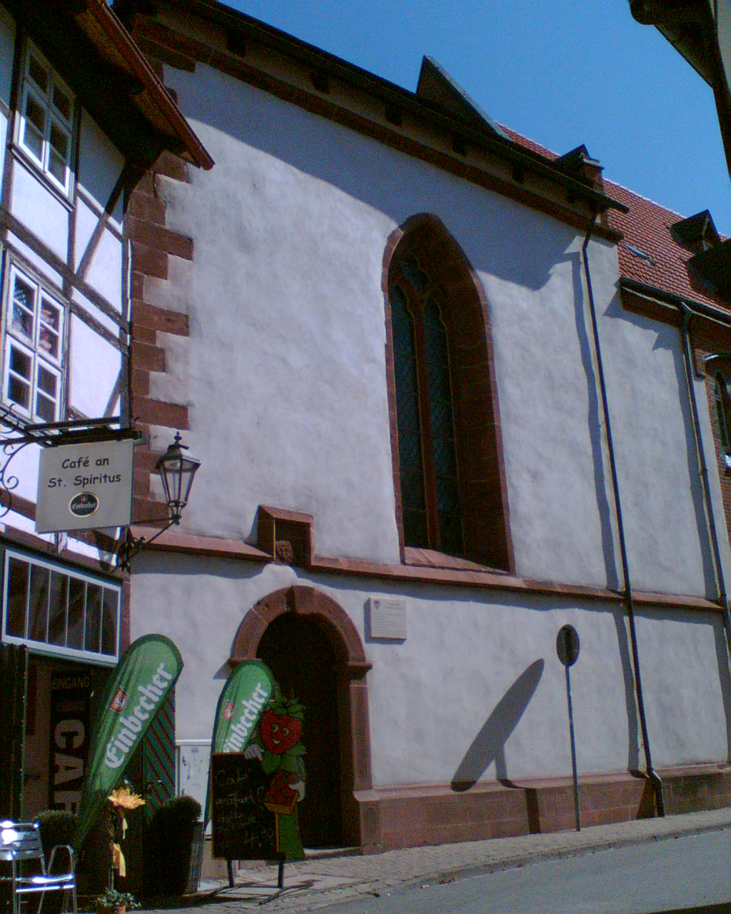 Saint Spiritus Chapel